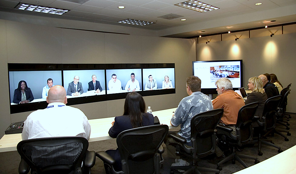 Teliris VirtuaLive Telepresence System. Image from